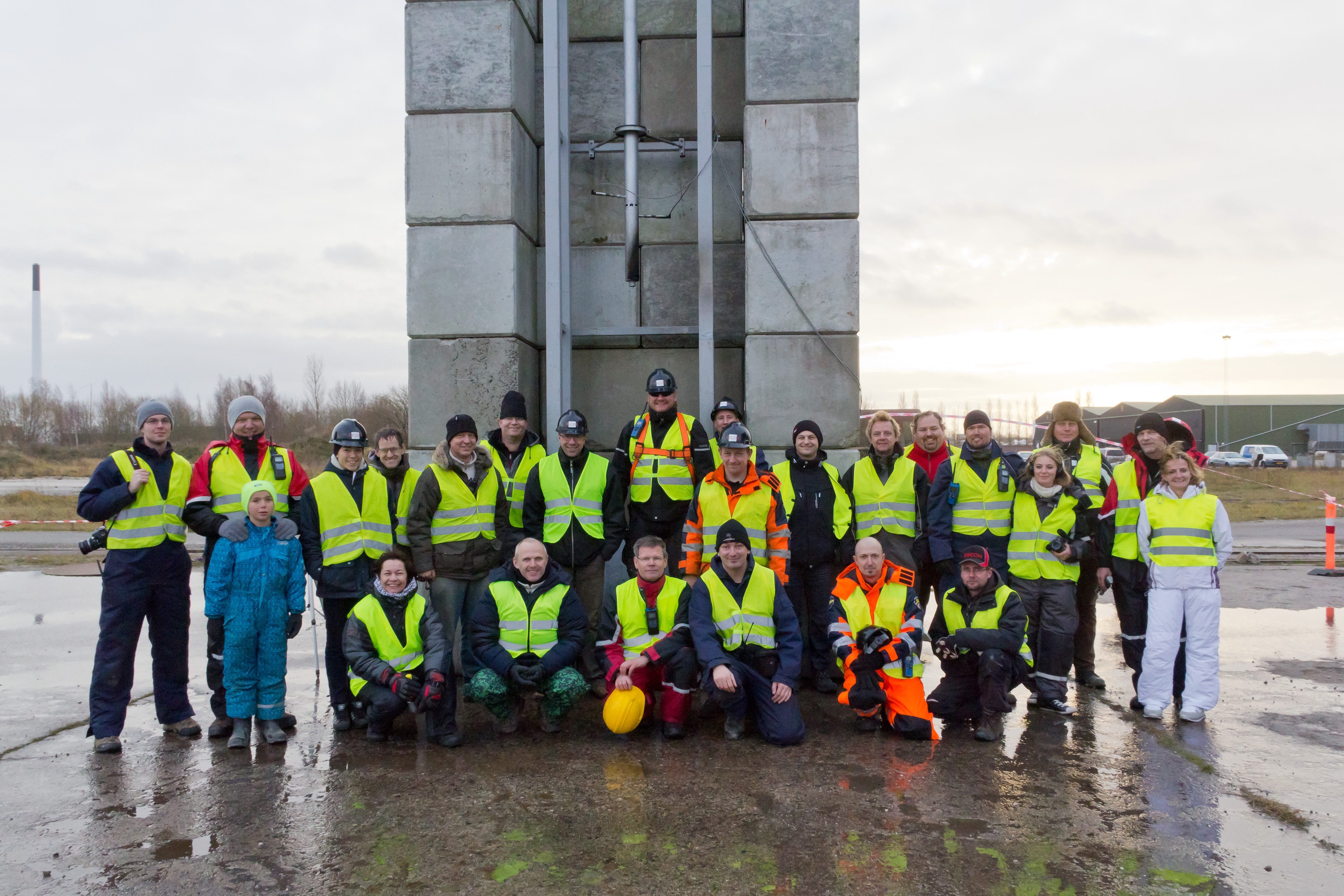 The CS Team